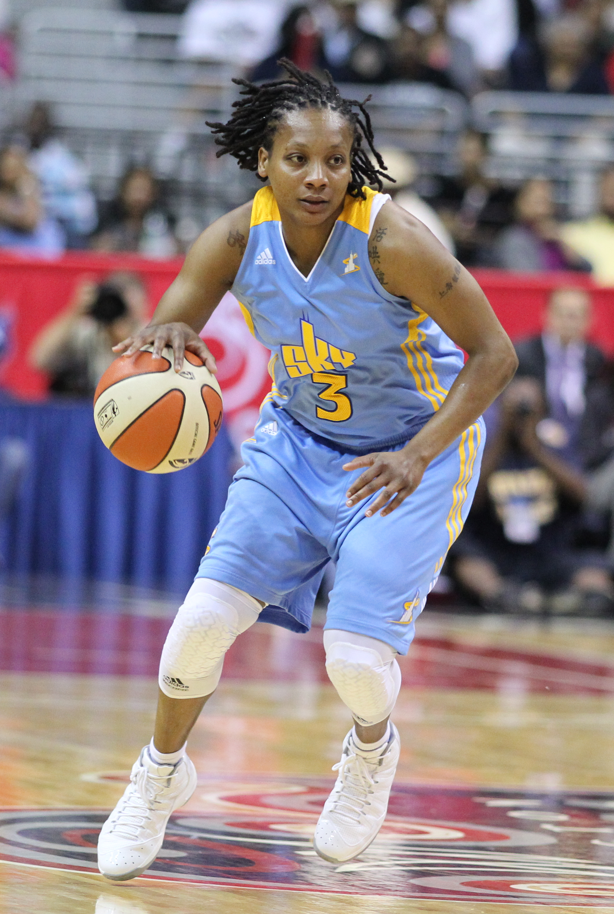 Dominique Canty of the Chicago Sky (at time of photo)